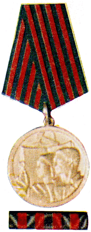 Medal of Labour